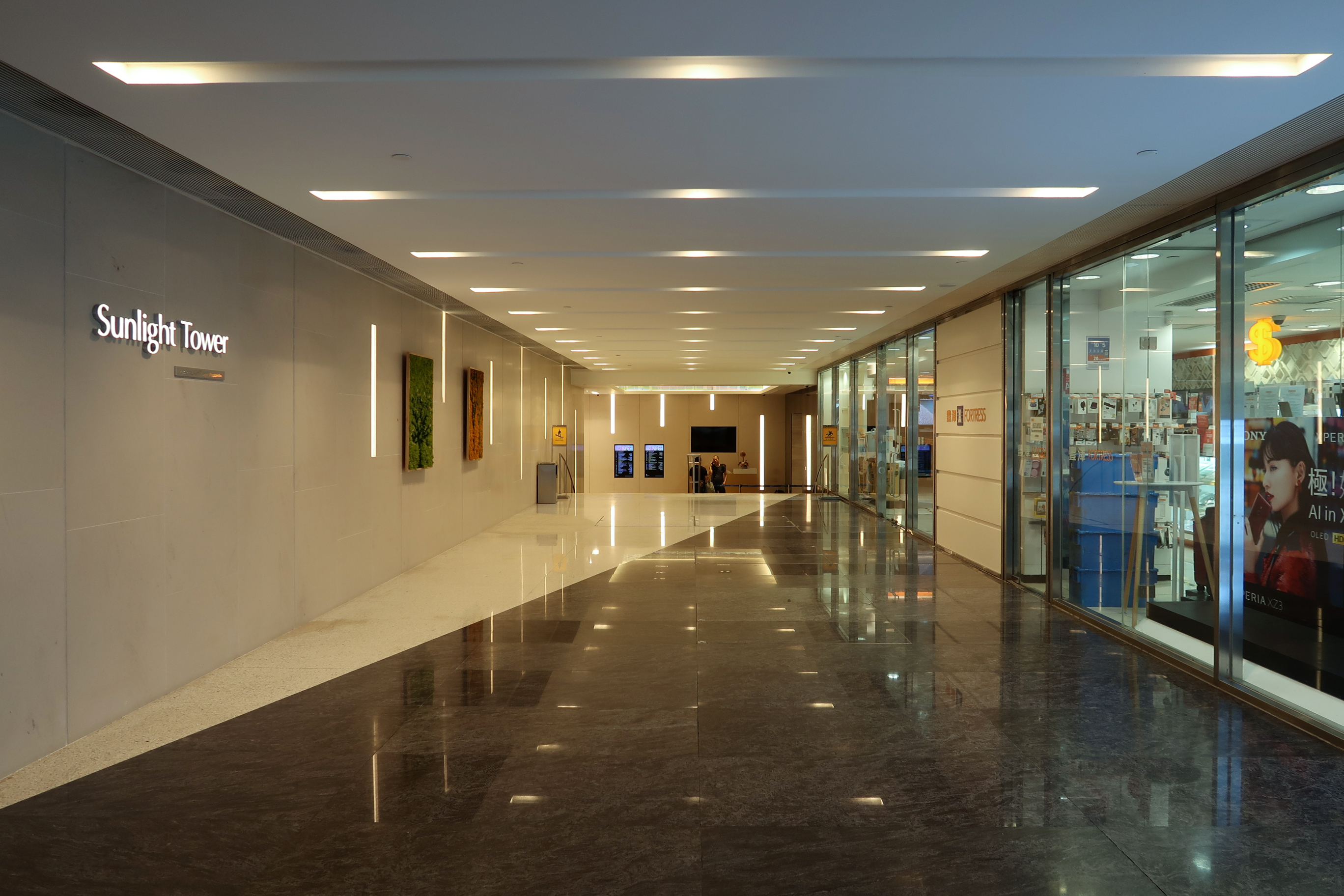 Sunlight Tower Lobby